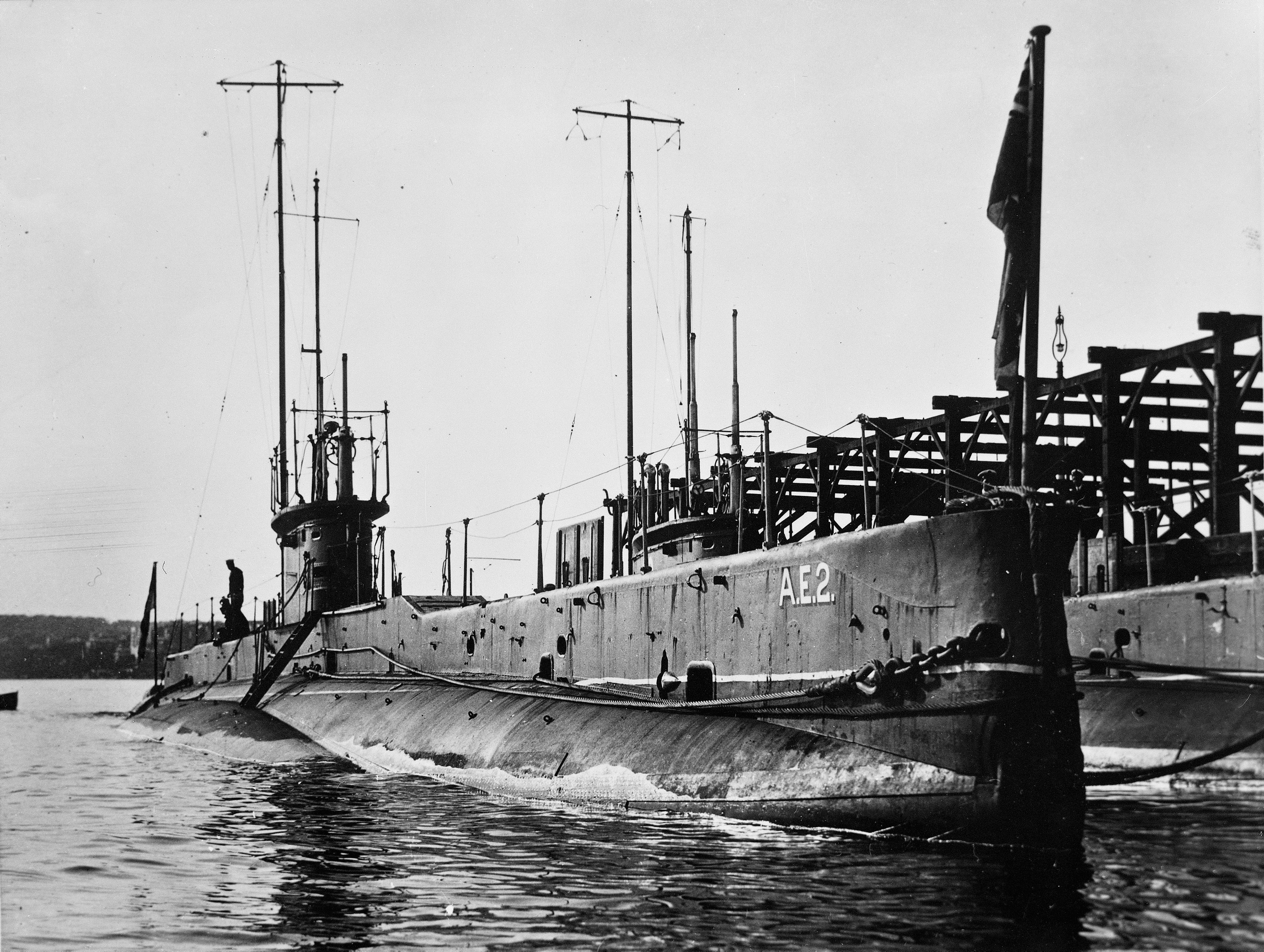 The submarine HMAS AE2, berthed at Garden Island in Sydney, with the HMAS AE1 behind. Taken soon after arrival on May 24, 1914 [1].